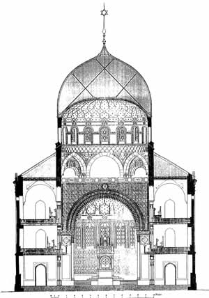 Synagoue in Czernowitz, built in 1877 par architect Zachariewicz. Sectional elevation- View to the east.